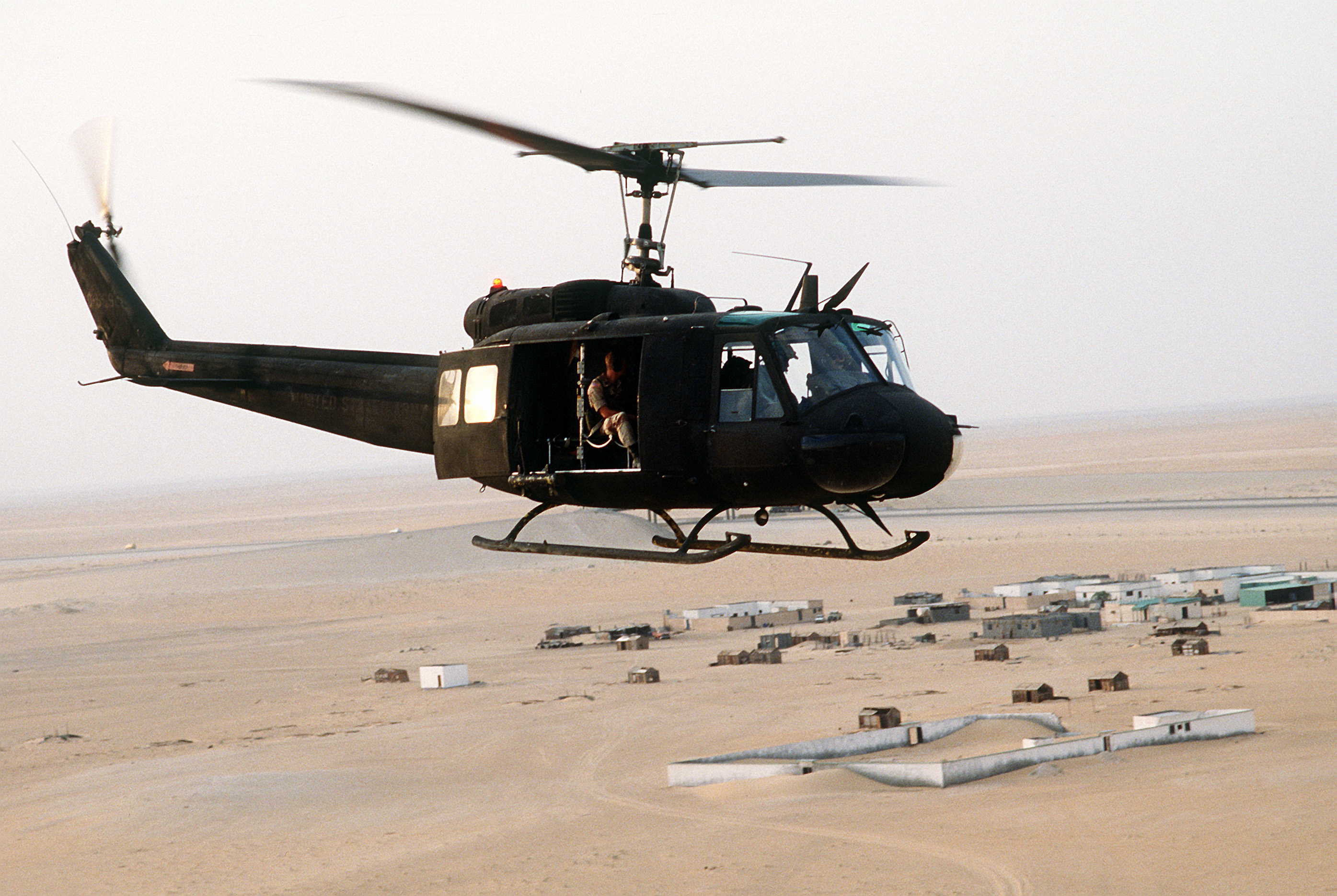 A U.S. Army Bell UH-1H Huey helicopter of Battery B, 1st Battalion, 159th Aviation Regiment, 18th Aviation Brigade, flies over an abandoned town in Saudi-Arabia during Operation Desert Shield on 9 December 1990.